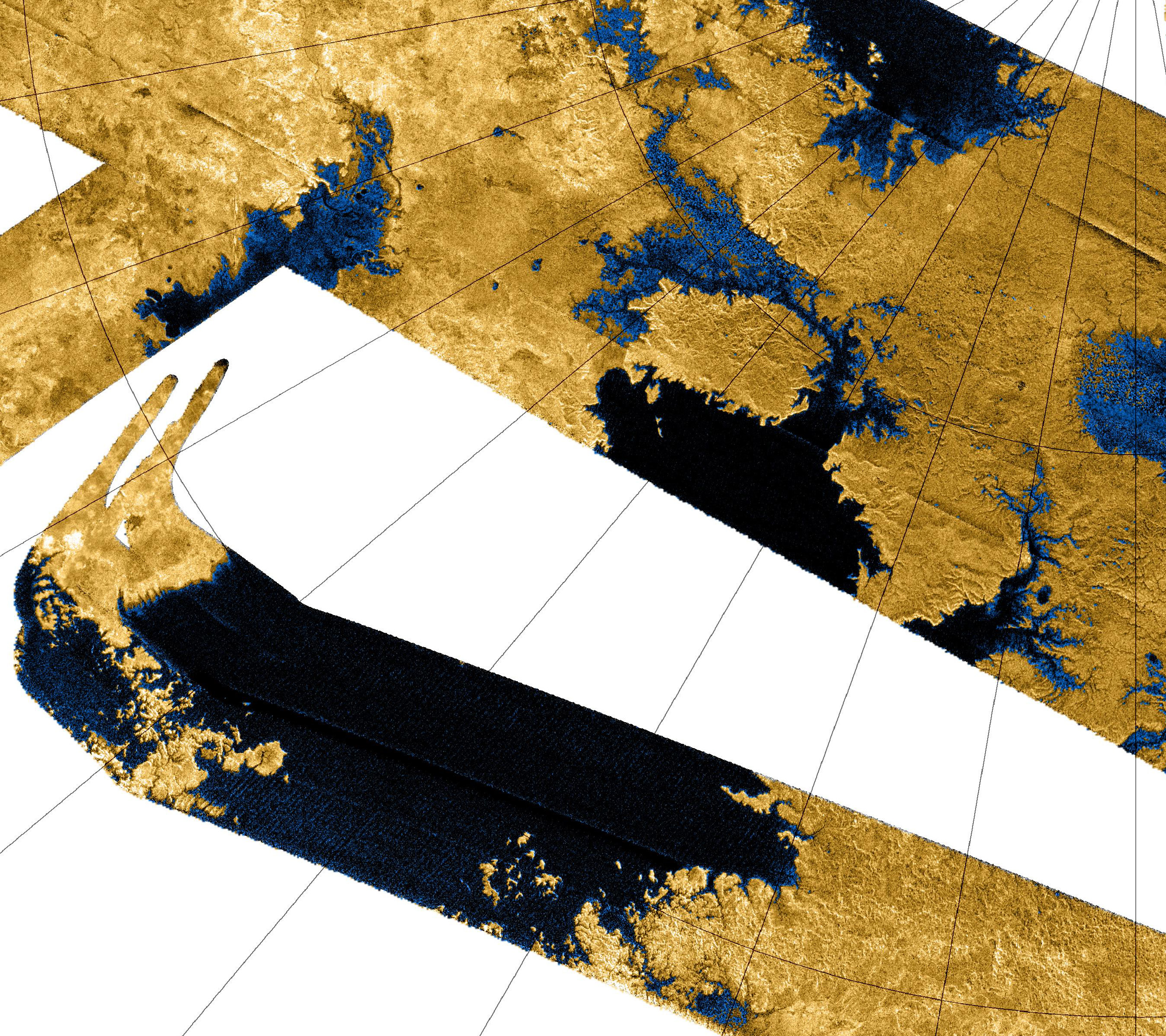 This Cassini false-color mosaic shows synthetic-aperture radar imagery of Titan's north polar region. Approximately 60 percent of Titan's north polar region, above 60 degrees north latitude, is now mapped with radar. About 14 percent of the mapped region is covered by what is interpreted as liquid hydrocarbon lakes. Features thought to be liquid are shown in blue and black, and the areas likely to be solid surface are tinted brown. These seas are most likely filled with liquid ethane, methane and dissolved nitrogen. Many bays, islands and presumed tributary networks are associated with the seas. Of the 400 observed lakes and seas, 70 percent of their area is taken up by large "seas" greater than 26,000 square kilometers (10,000 square miles). The Cassini-Huygens mission is a cooperative project of NASA, the European Space Agency and the Italian Space Agency. The Jet Propulsion Laboratory, a division of the California Institute of Technology in Pasadena, manages the mission for NASA's Science Mission Directorate, Washington, D.C. The Cassini orbiter was designed, developed and assembled at JPL. The radar instrument was built by JPL and the Italian Space Agency, working with team members from the United States and several European countries. For more information about the Cassini-Huygens mission, visit The original NASA image has been modified by cropping, to show primarily Kraken Mare, and rotating 90 deg., to put north at upper right.